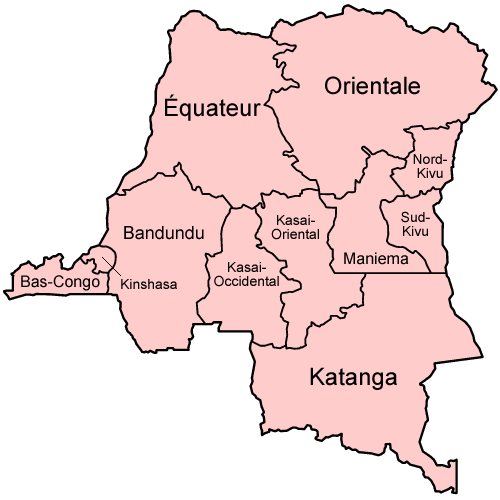 Map of the provinces of Congo-Kinshasa, with French (local) names. Made by User:Golbez.